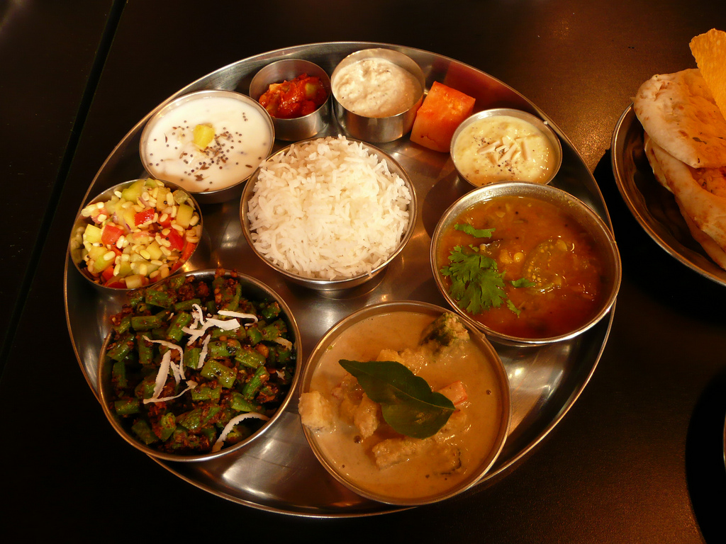 In many parts of India, a meal is served as a collage of various dishes. It typically includes rice and/or bread, veggies, sometimes meat, sour and sweet soups/chutney, yoghurt/curd dish and other items. The simplest thali may be just bread and daal, or rice and daal with chutney, while others may have 3, 4, 5, or even 10+ items.